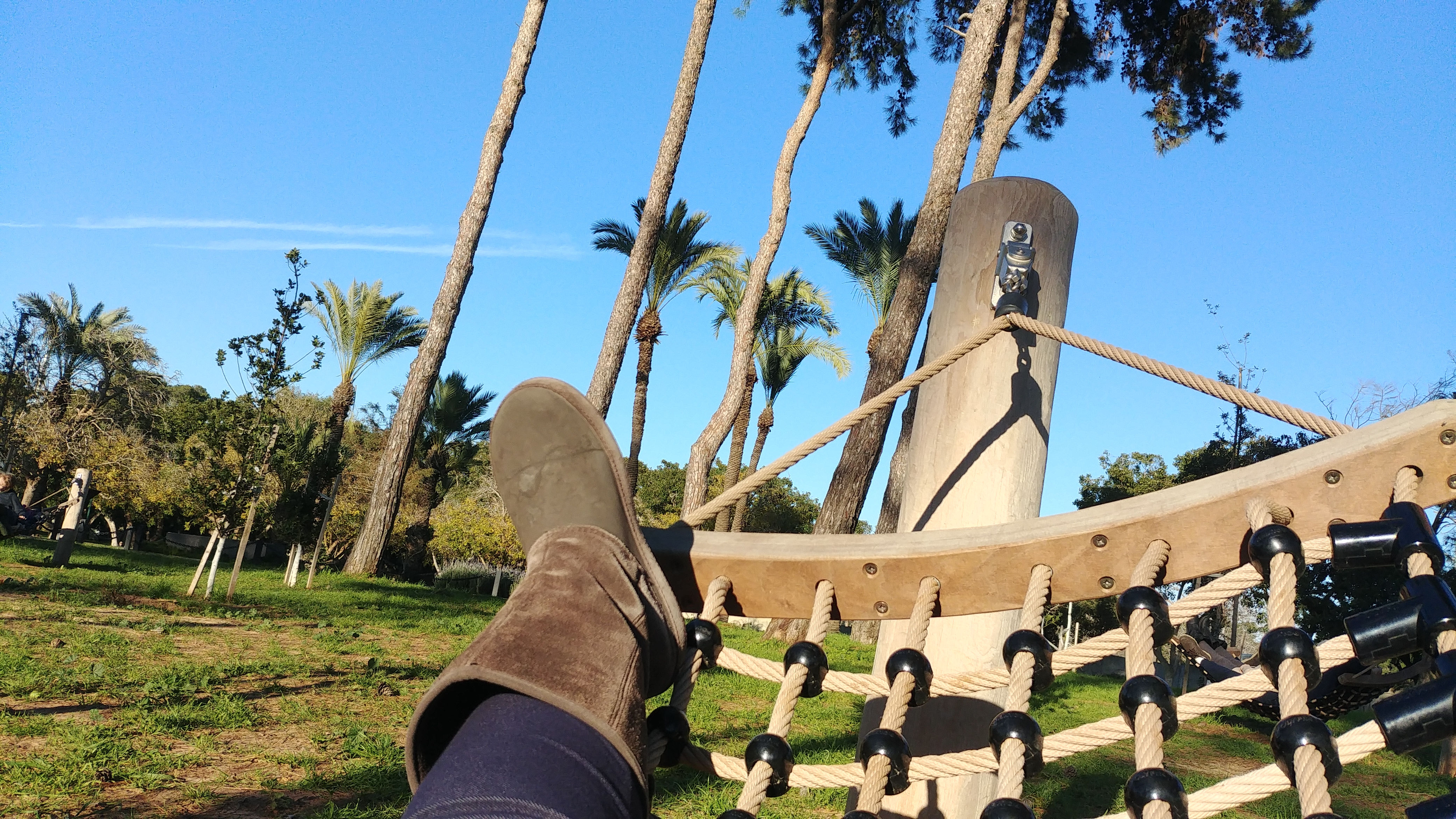 Hammock in Ramat Gan National Park, Israel